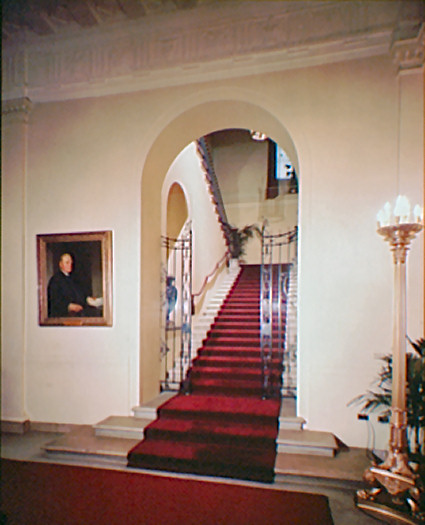 Title: White House interiors. Grand staircase in White House I